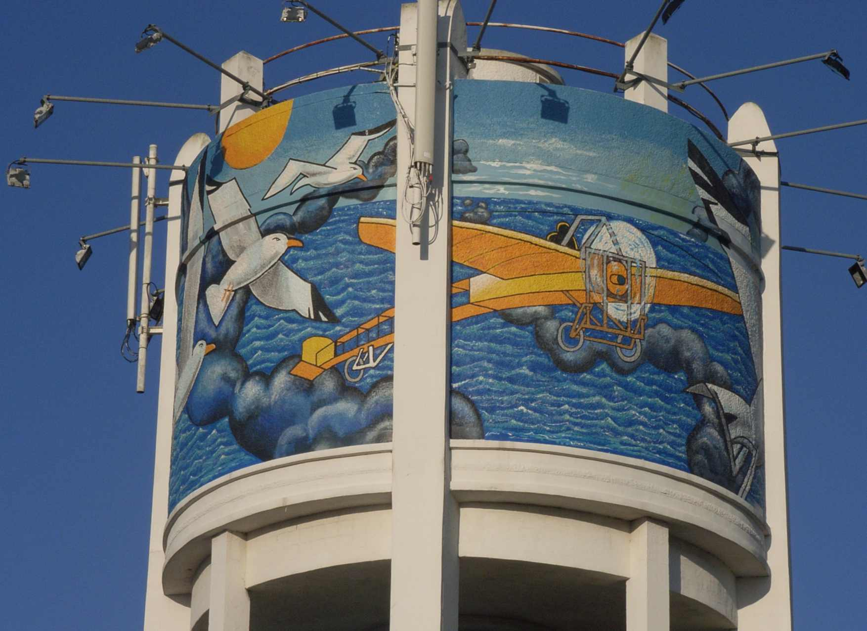 At Sangatte's Blériot Plage, next to Calais town center, departement of Pas-de-Calais, region Nord-Pas-de-Calais. A water tower is decorated with a mural of Bleriot's flight over the Channel.